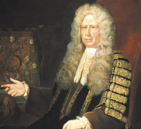 Portrait of Sir John Trevor (c.1637-1717), Speaker of the House of Commons